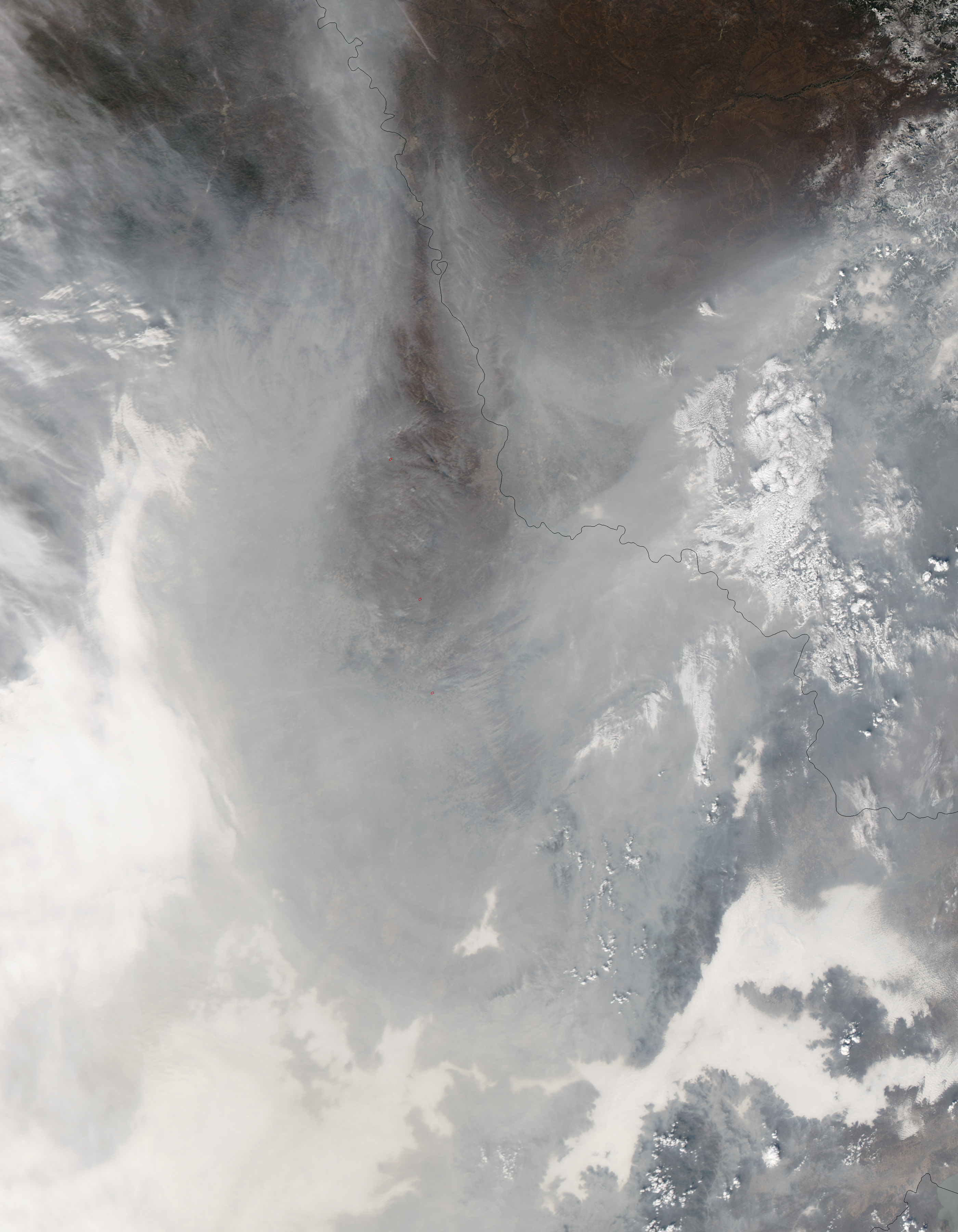 smog and fog in the vicinity of Harbin, 21 October 2013